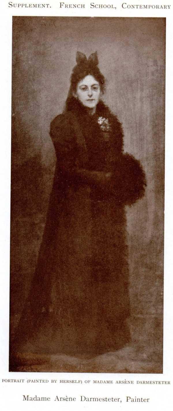 1905 print after page of Women painters of the world, from the time of Caterina Vigri, 1413-1463, to Rosa Bonheur and the present day, by Walter Shaw Sparrow, The Art and Life Library, Hodder & Stoughton, 27 Paternoster Row, London